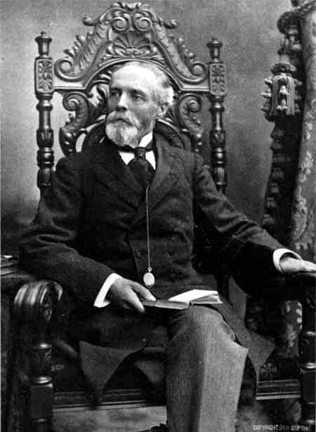 Whitelaw Reid Library of Congress